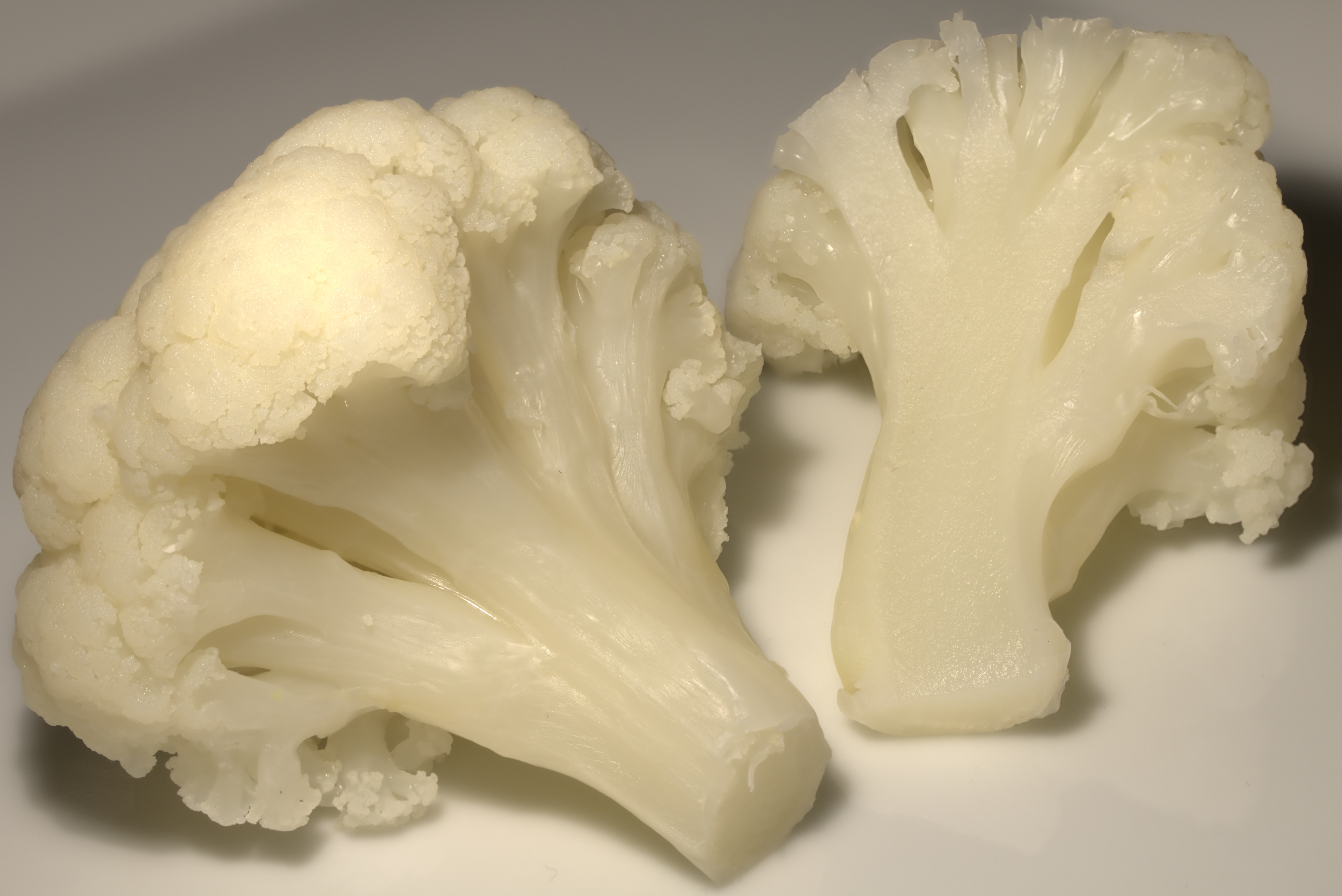 cooked cauliflower